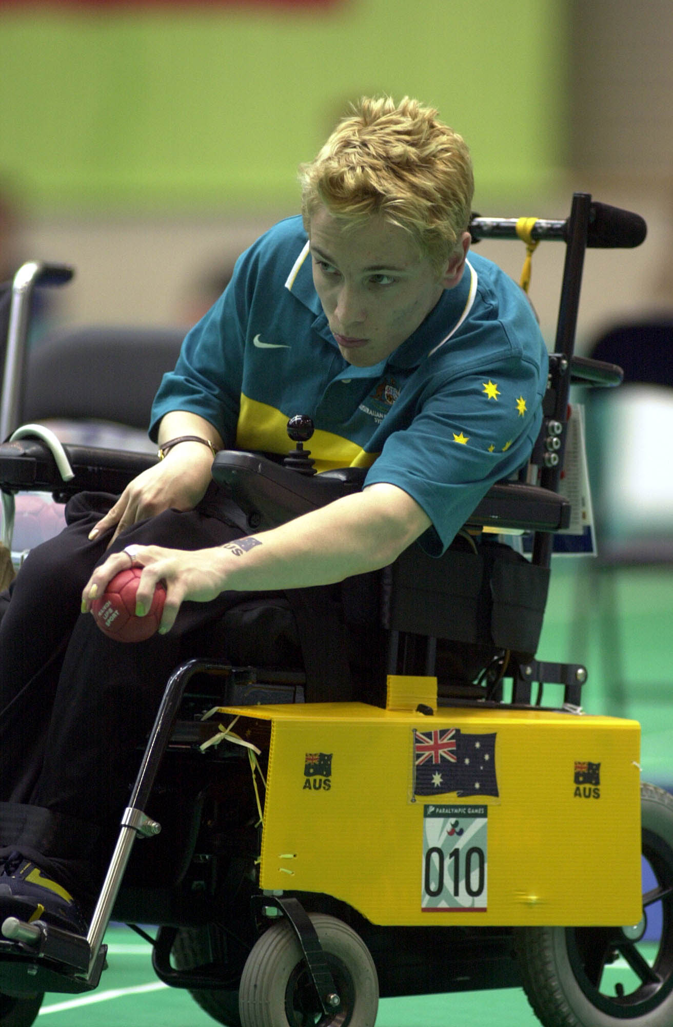 Australian boccia player Scott Elsworth during 2000 Sydney Paralympic Games match